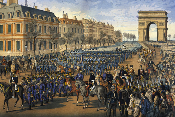 Prussian Troops Parade Down the Champs Élysée in Paris (1 March 1871)